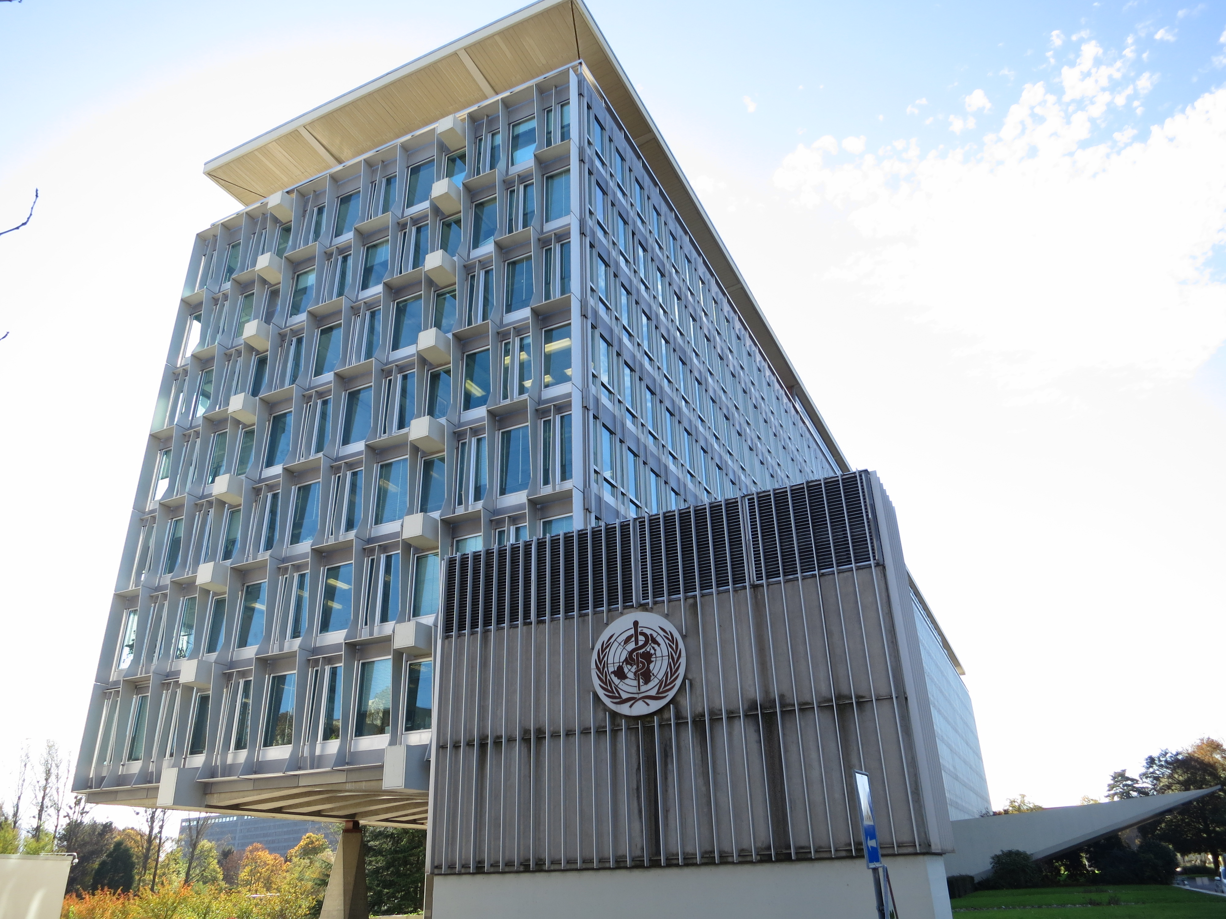 WHO HQ main building, Geneva, from North